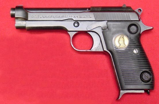 Standard Tariq 9x19mm Pistol with blued finish.